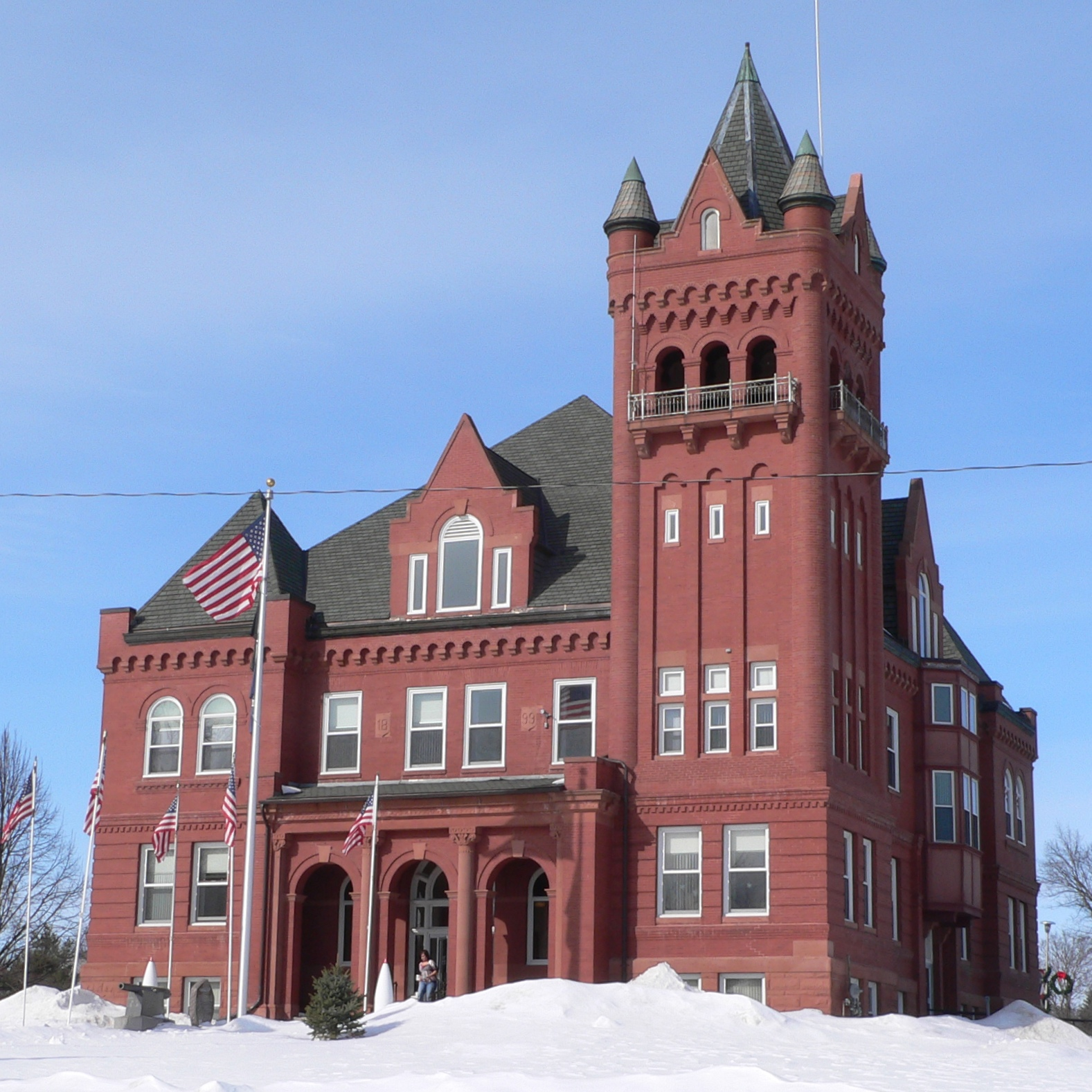 Wayne County Courthouse in Wayne, Nebraska; seen from the southeast. The courthouse was designed in Richardsonian Romanesque style by the architectural firm of Orff & Guilbert, and was built in 1899. It is listed in the National Register of Historic Places.